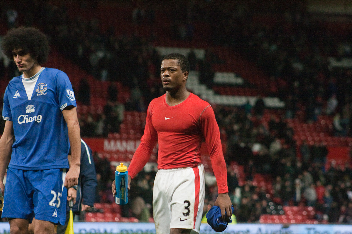 Patrice Evra of Manchester United after a match against Everton.